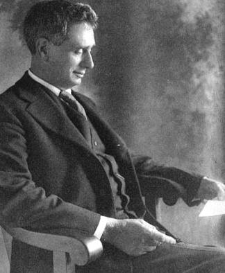 Louis Brandeis portrait, 1915